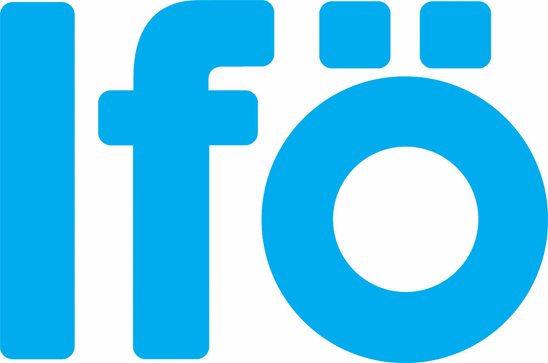 Ifö logo